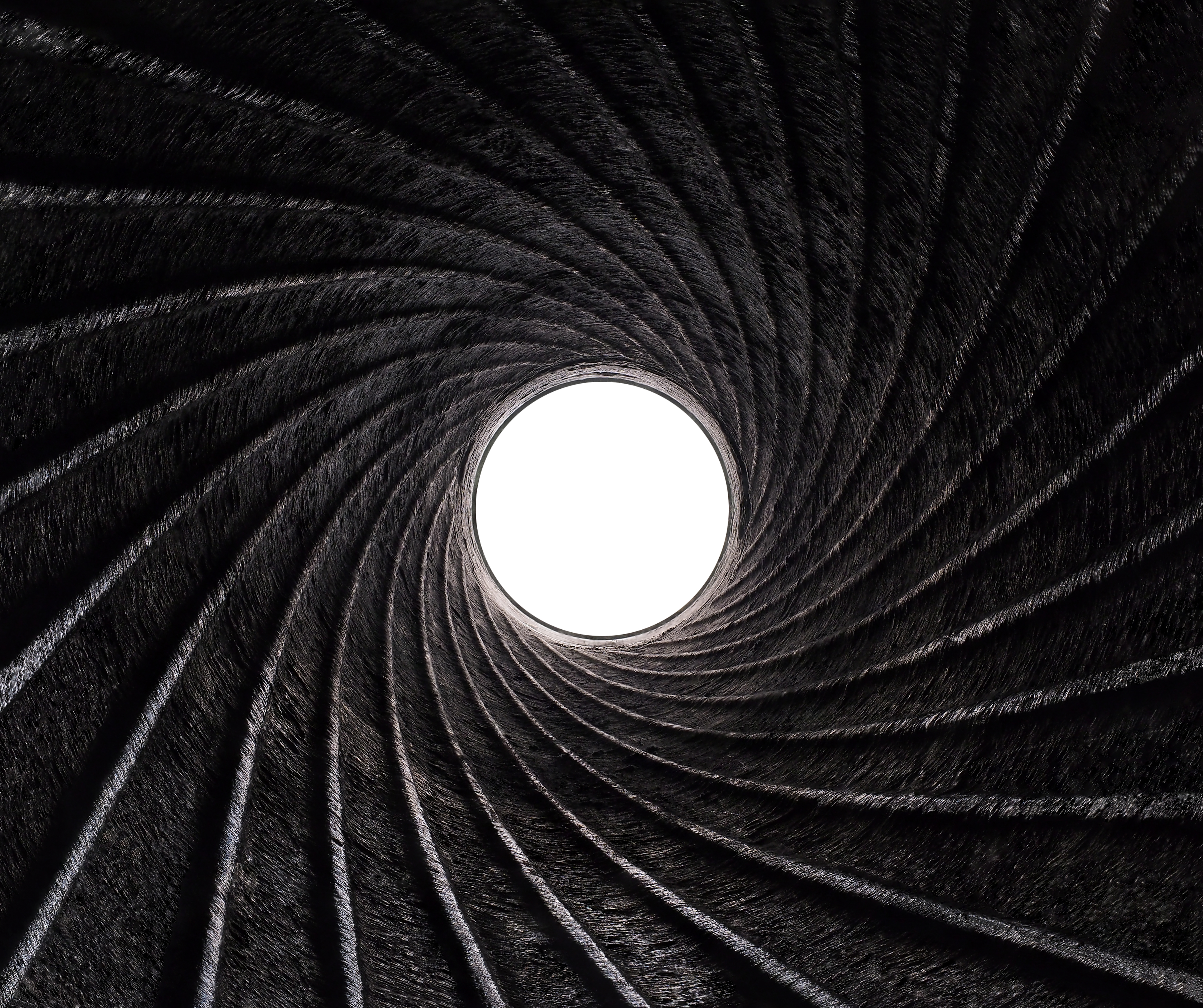 Rifling of a M75 cannon (year 1891, Austro-Hungarian). Exposition of Ljubljana castle, Ljubljana, Slovenia. The photo was made by macro stacking of 43 pictures.This photograph was taken with an Olympus E-P5